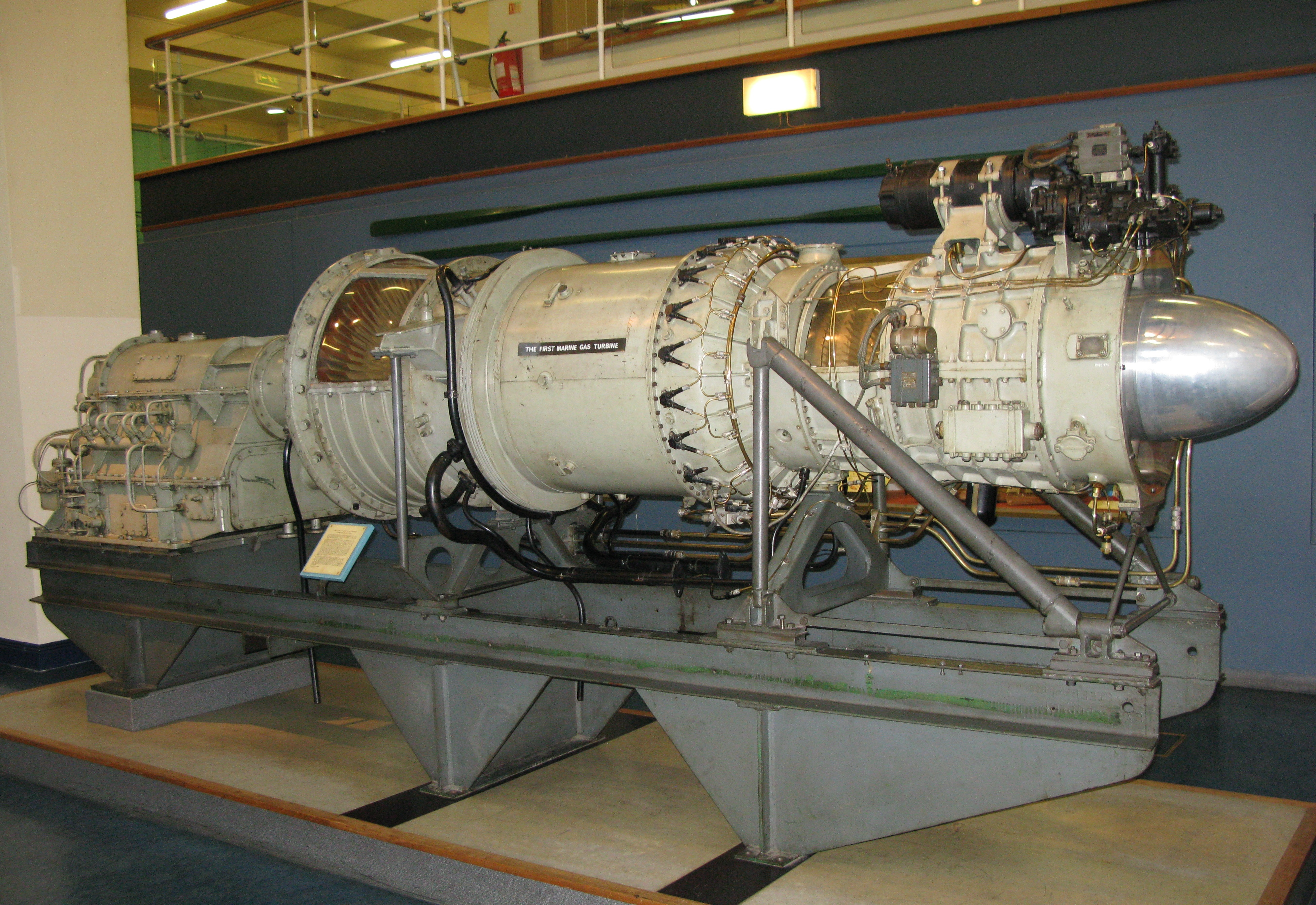 Photo of the Metrovick Gatric first marine gas-turbine. It was installed in the Royal Navy's Motor Gun Boat MGB 2009 in 1947